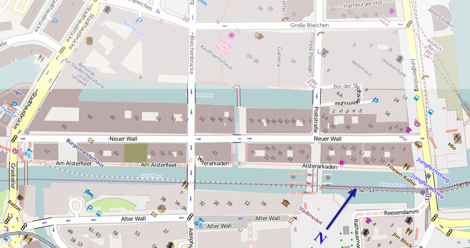 This map of Hamburg Neuer Wall, ungenordet was created from OpenStreetMap project data, collected by the community. This map may be incomplete, and may contain errors. Don't rely solely on it for navigation.